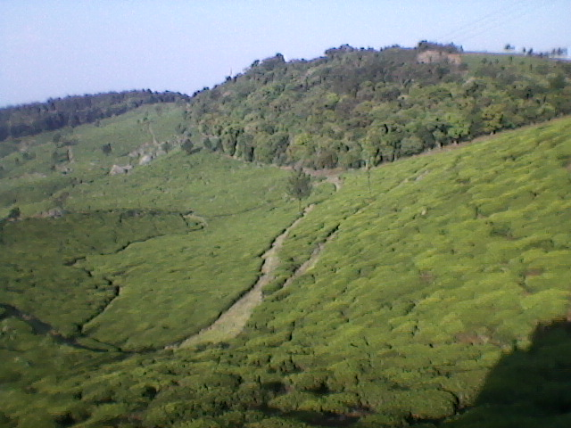 view from kodanadu downwards